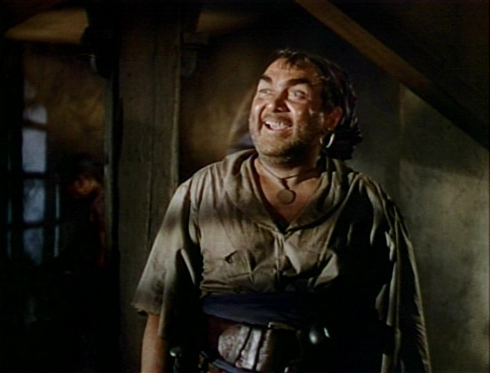 Thomas Mitchell in a screenshot from the trailer for the film The Black Swan.